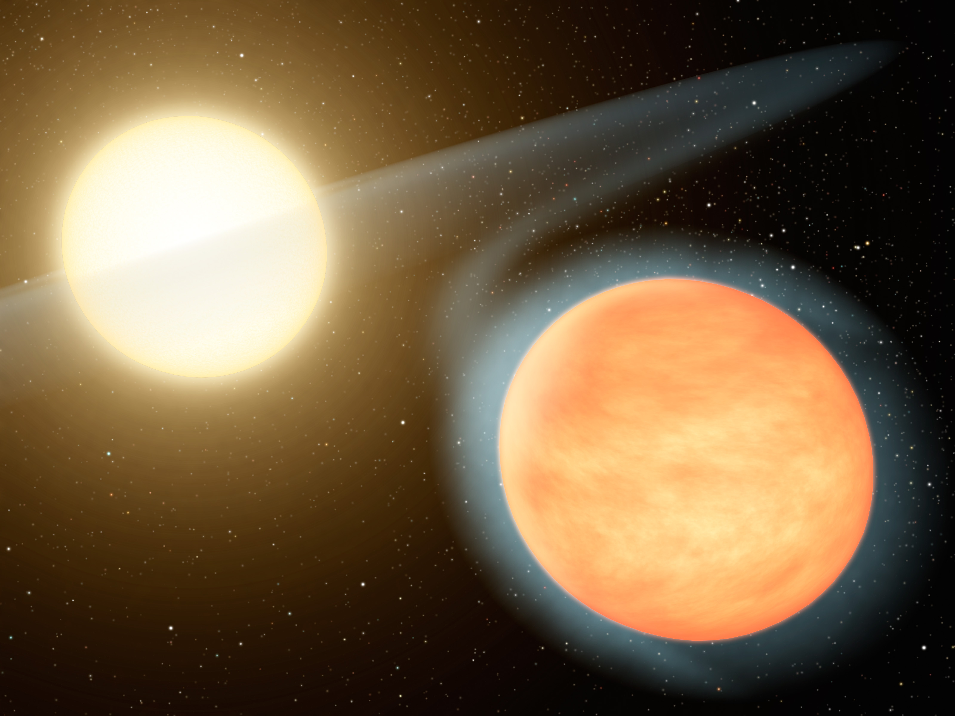 This artist's concept shows the searing-hot gas planet WASP-12b (orange orb) and its star. NASA's Spitzer Space Telescope discovered that the planet has more carbon than oxygen, making it the first carbon-rich planet ever observed. Our planet Earth has relatively little amounts of carbon -- it is made largely of oxygen and silicon. Other gas planets in our solar system, for example Jupiter, are expected to have less carbon than oxygen, but this is not known. Unlike WASP-12b, these planets harbor water, the main oxygen carrier, deep in their atmospheres, where it is difficult to measure. Concentrated carbon can take the form of diamond, so astronomers say that carbon-rich gas planets could have abundant diamond in their interiors. WASP-12b is located roughly 1,200 light-years away in the constellation Auriga. It swings around its star every 1.1 days. Because the planet is so close to its star, the star's gravity stretches it slightly into an egg shape. The star's gravity also pulls material off the planet into a disk around the star (shown here in transparent, white hues).